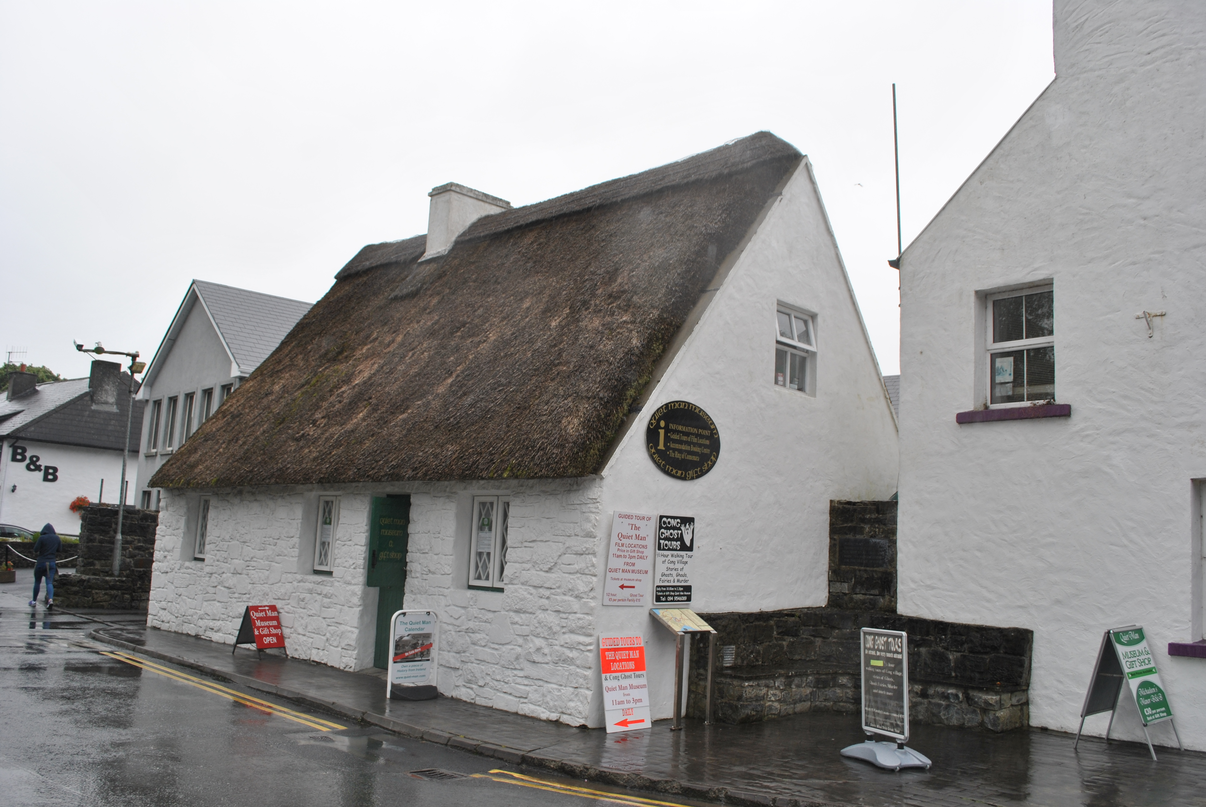 Cong, County Mayo